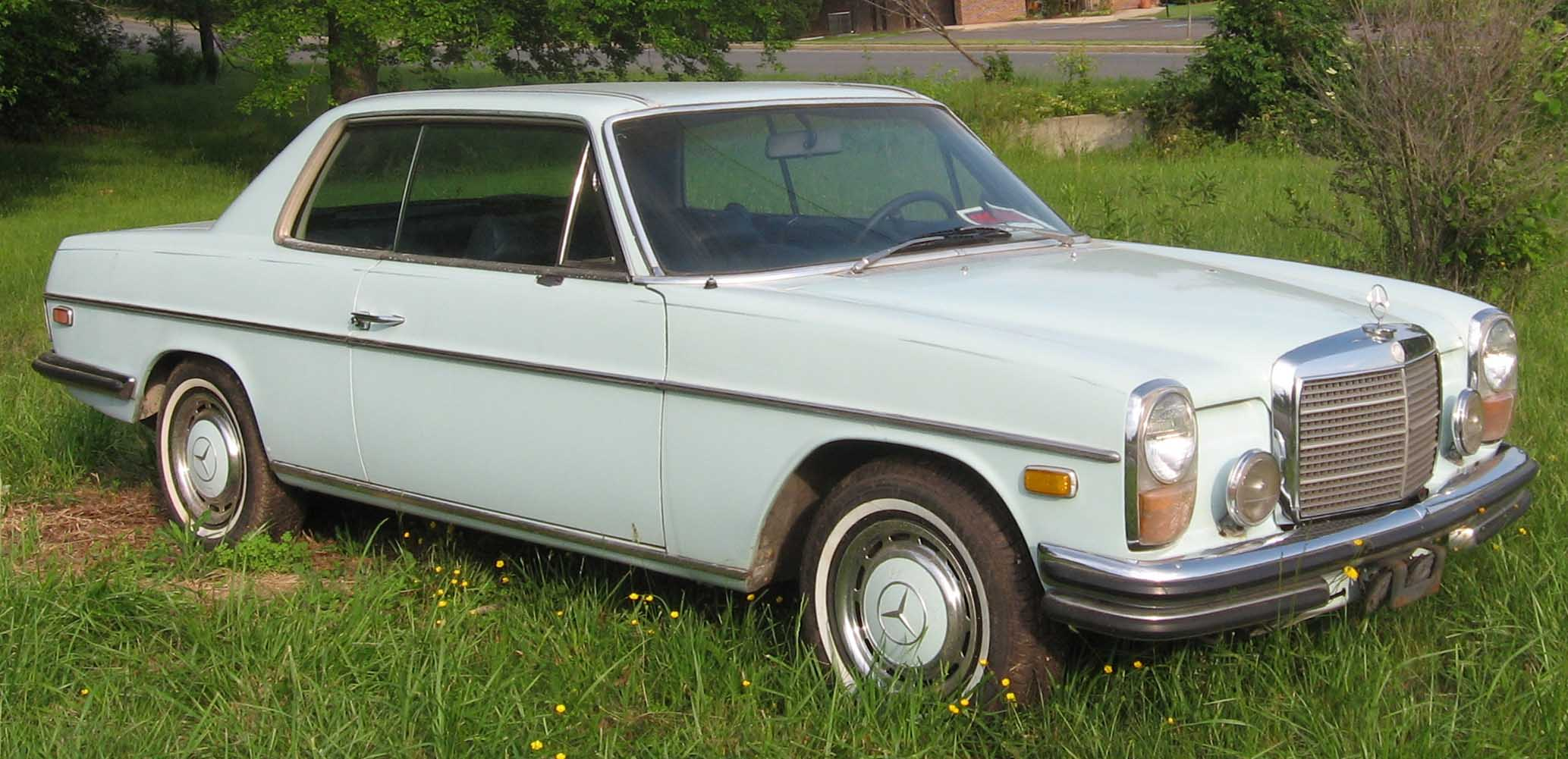 Mercedes-Benz 280C photographed in Fort Washington, Maryland, USA.